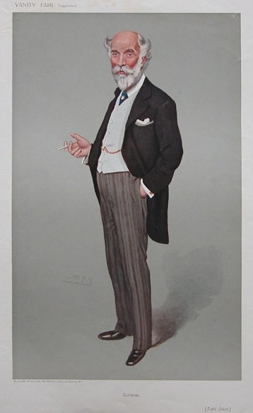 Perspective corrected and cropped version of File:James_Joicey,_Vanity_Fair,_1906-12-19.jpg